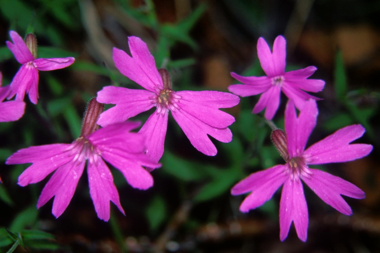 Silene_akaisialpina_Takanebiranji_in_Komatsumine